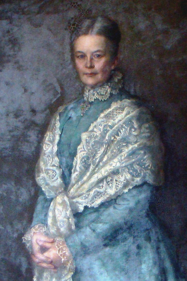 Marie, Princess of Schwarzburg-Sondershausen (German Principality), née Princess of Sachsen-Altenburg (1845-1930); detail of a painting, St.-Michael-Church (town Gehren)